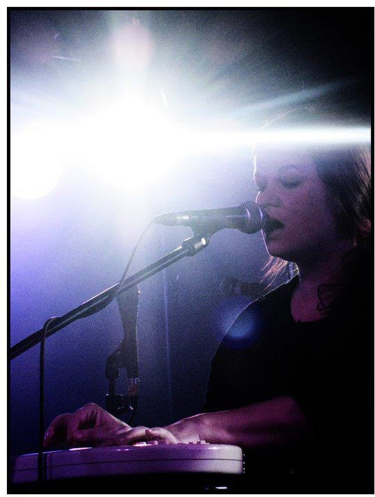 Cortney Tidwell performing live with Omnichord on 'Boys' tour, England, 2010.